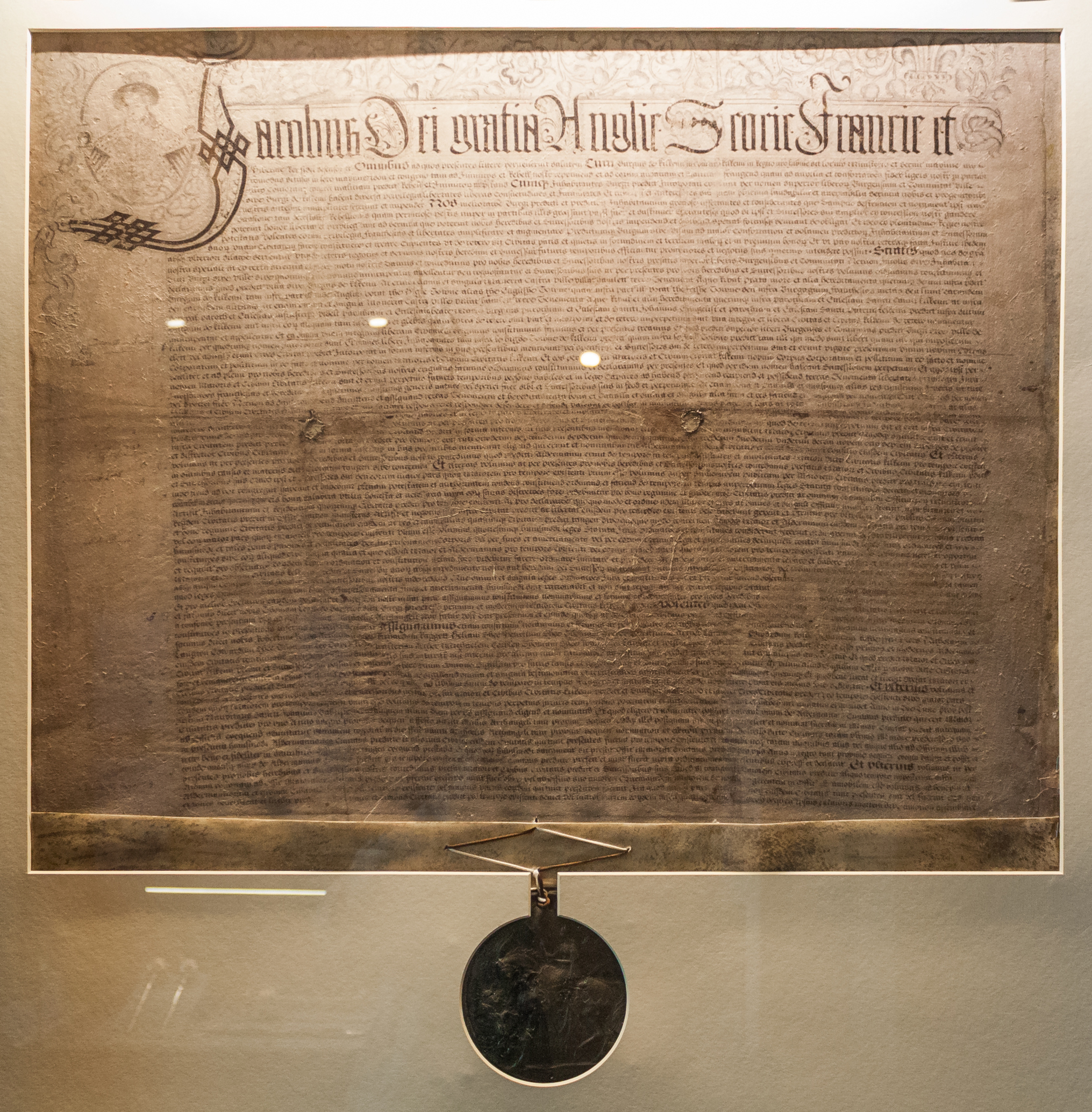 Charter of James I, 1609, as displayed in the Kilkenny room. This charter raised Kilkenny to a city with a mayor who is “to have a sword carried before him or them within the said city, and the county of the said city, at their will and pleasure, in such manner and form as is used in any other city or cities before any Mayor or Mayors within the said Kingdom of Ireland.” (See John G. A. Prim, The Corporation Insignia and Olden Civic State of Kilkenny. In: The Journal of the Royal Historical and Archaeological Association of Ireland, Fourth Series, Vol. 1, No. 1 (1870), pp. 280–305 (quote from pp. 281–282), JSTOR, and G. A. Hayes–McCoy: The Galway Sword and Mace. In: Journal of the Galway Archaeological and Historical Society, Vol. 29, No. 1/2 (1960), pp. 15–35 (see p. 19.), JSTOR)